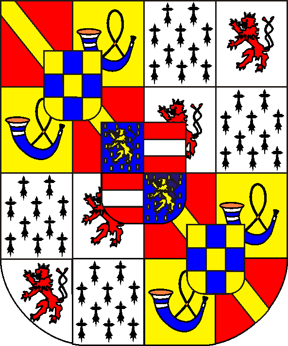 coats of arms of Nassau-Chalons 1,4: Chalons/Orange/Geneve; 2,3: Bretagne/Luxemburg; heart: Nassau/Vianden